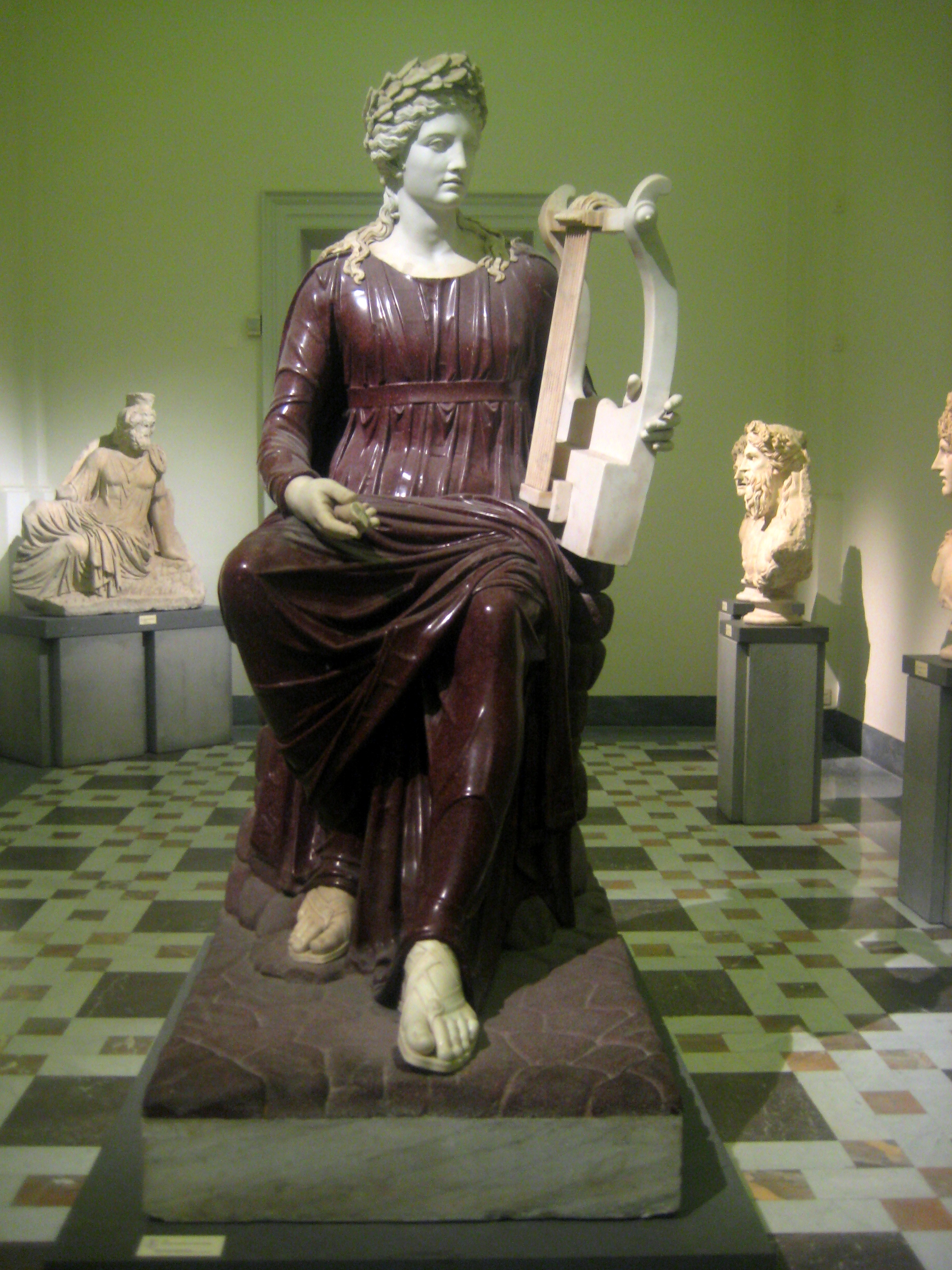 Statue of the goddess Rome, restored in the nineteenth century under the name Apollo Citaredo. Red porphyry and white marble. Roman work, second half of the 2nd century AD Farnese Collection, National Archaeological Museum of Naples.